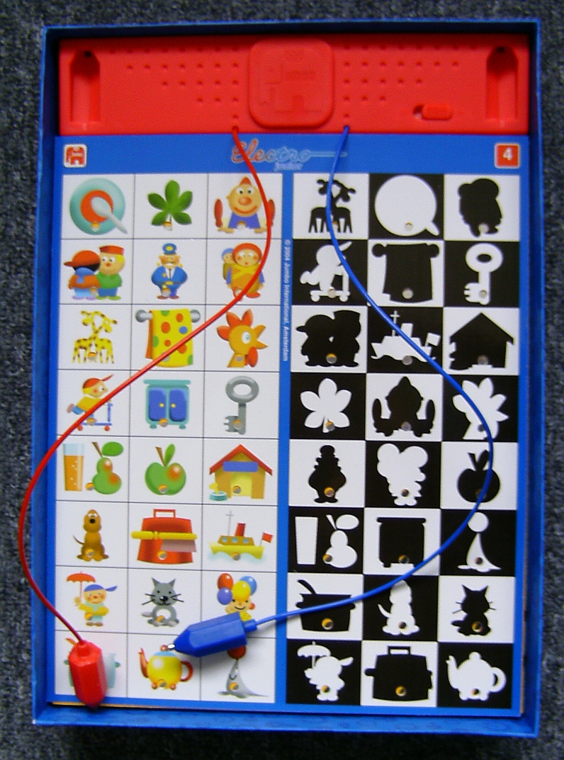 Electric Questioner, electric learning toy, invented 1928, newer horizontal version for younger kids. Find right answer on the right, then light is lit